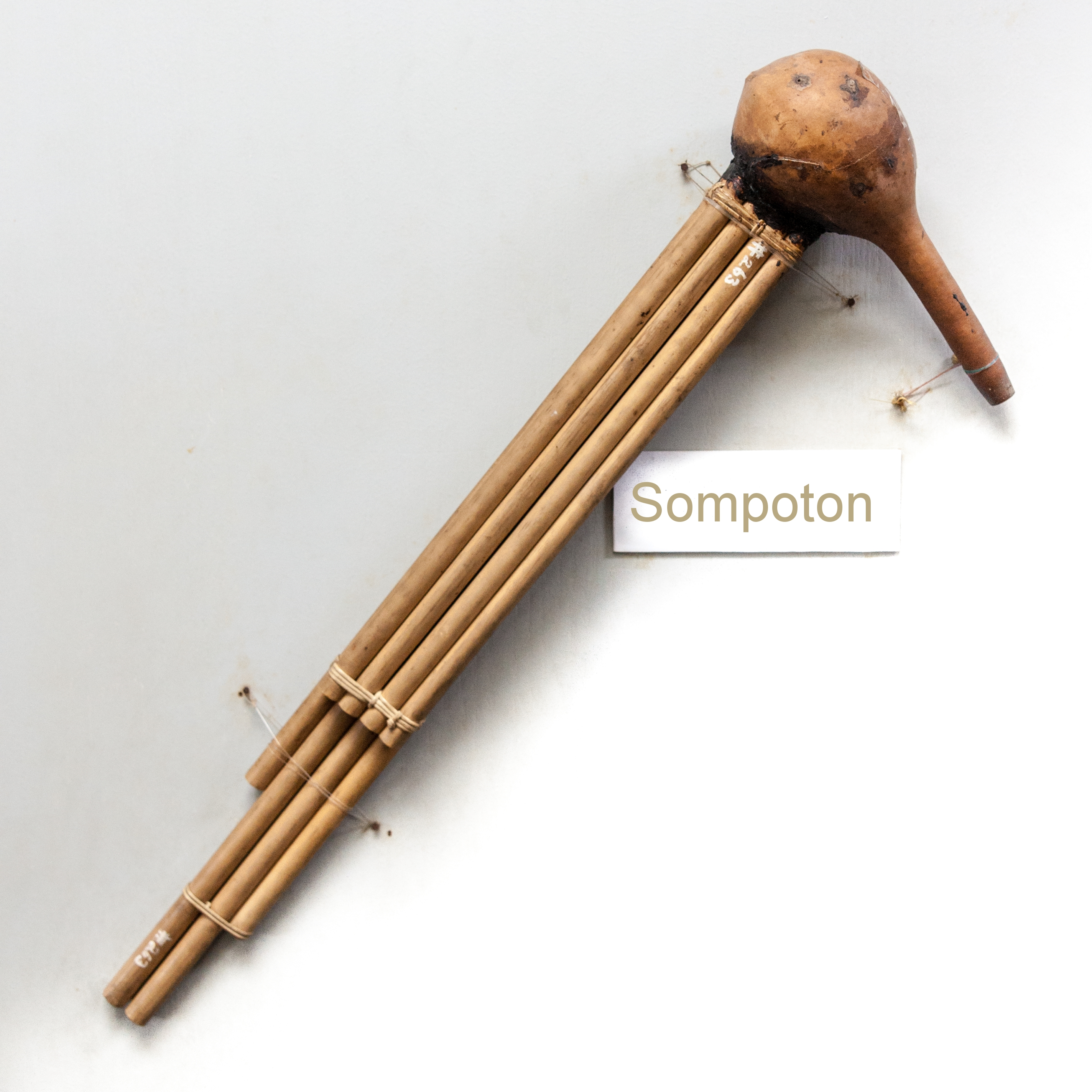 Sandakan, Sabah: Murut Sompoton, exhibited in Wisma Warisan Sandakan, 1st floor, in the former British North Borneo Museum